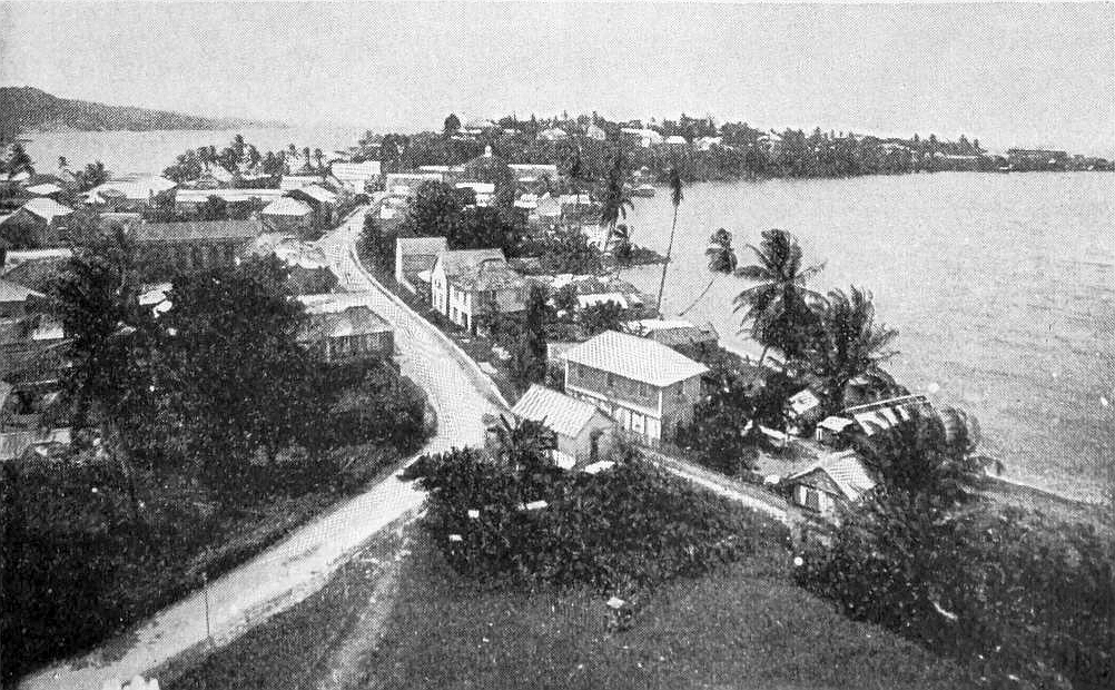 Title: Review of reviews and world's work Year: 1890 (1890s) Authors: Subjects: Publisher: New York Review of Reviews Corp Text Appearing Before Image: CAPTAIN L. D. BAKER. (The pioneer in the tropical fruittrade.) Text Appearing After Image: IOHT ANTONIO. (Principal shipping-place of the northern coast of Jamaica.) no hesitancy in saying that we are going intobusiness over in Cuba. The field there is apromising one ; and then, the United States mar-ket is so much nearer than from Jamaica. Asfor Cuba becoming a formidable rival to Jamaica,it IS yet too soonto tell for acertainty. I nso far as sugaris concerned, Iam of the opin-ion that thisisland has seenits best dayslong ago. Andany attempt torestore the su-gar industry inJamaica will befraught withdifficulty. Weall know theimmense rev-enue whichcane-sugaryielded in itstime. But, inorder for thebusiness to pay now, it is necessary to obtainlarge tracts of land, with great central factories tohandle the product of the field. As for raisingbananas and cocoa-nuts, the smaller lioldings an-swer the purpose well enough ; for there is notli-ing to stand between the cutting down of tliefruit and bringing it to the shipper. But caneneeds considerable attention. I doubt very much